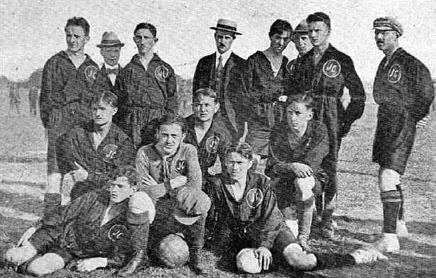 Polish football team Czarni Jasło in 1921